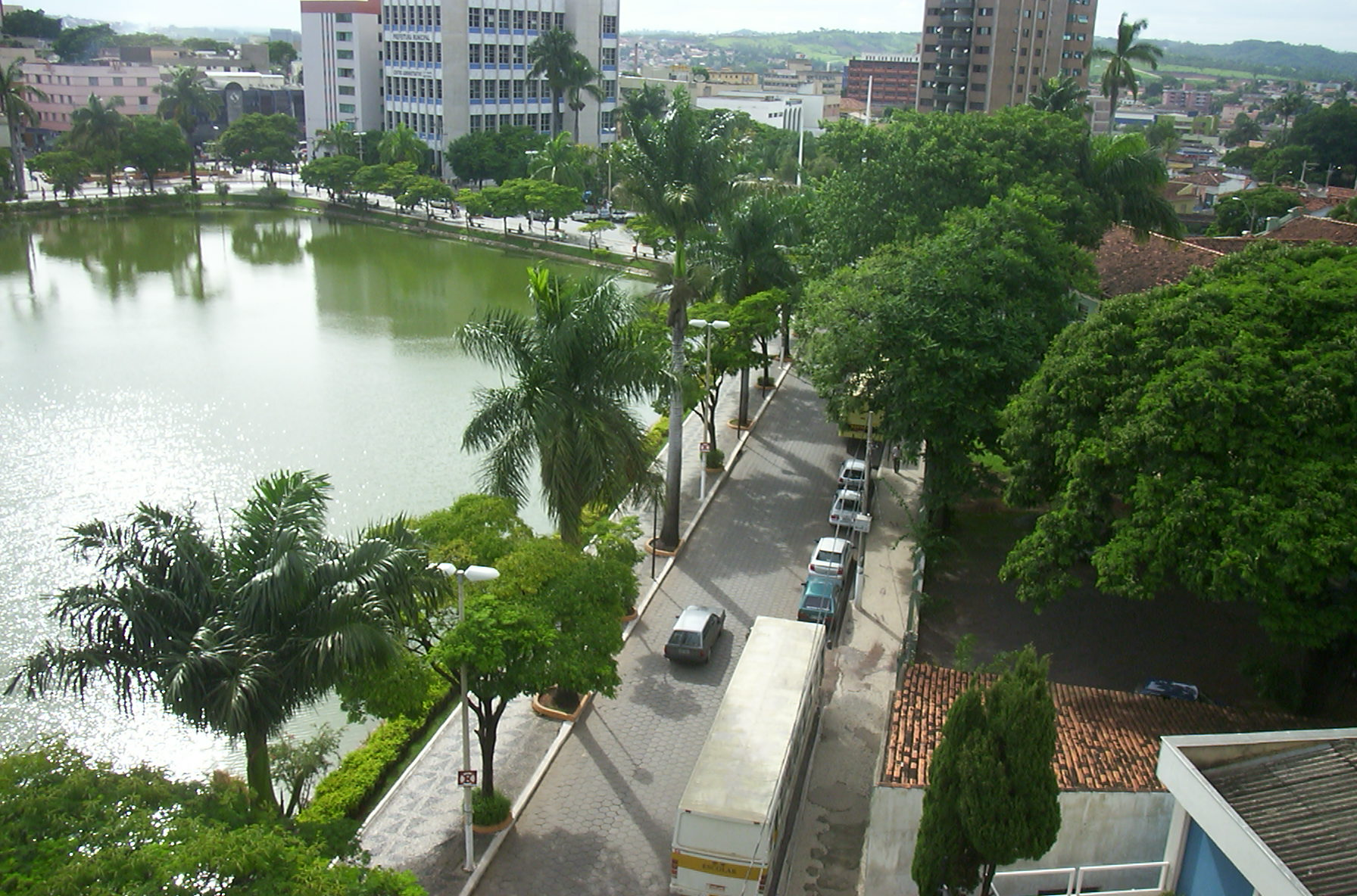 Downtown of Sete Lagoas, a city in the state of Minas Gerais, Brazil. Depicts the Lagoa Paulino (Paulino Lagoon)